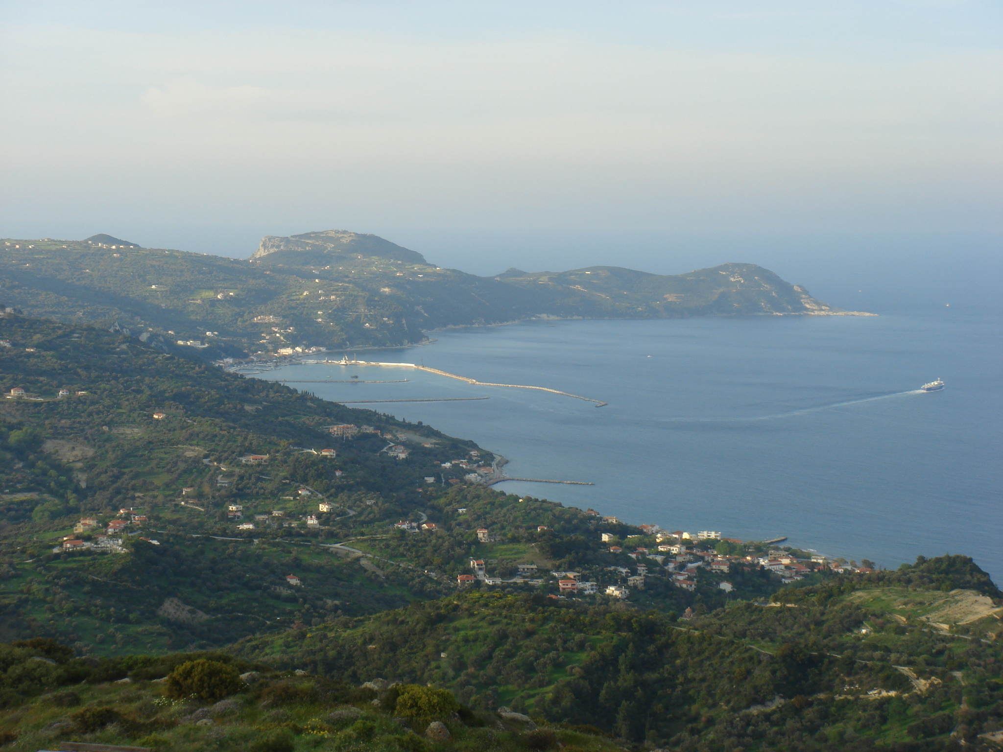 View of Kymi, Euboea, Greece.